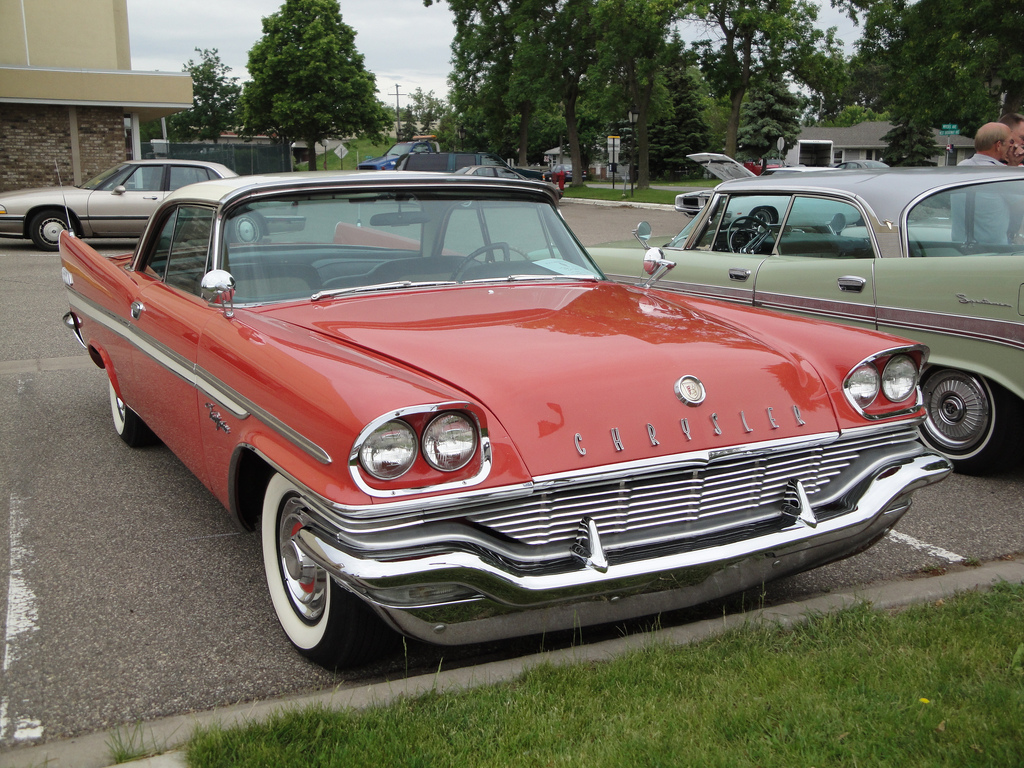 1957 Chrysler New Yorker